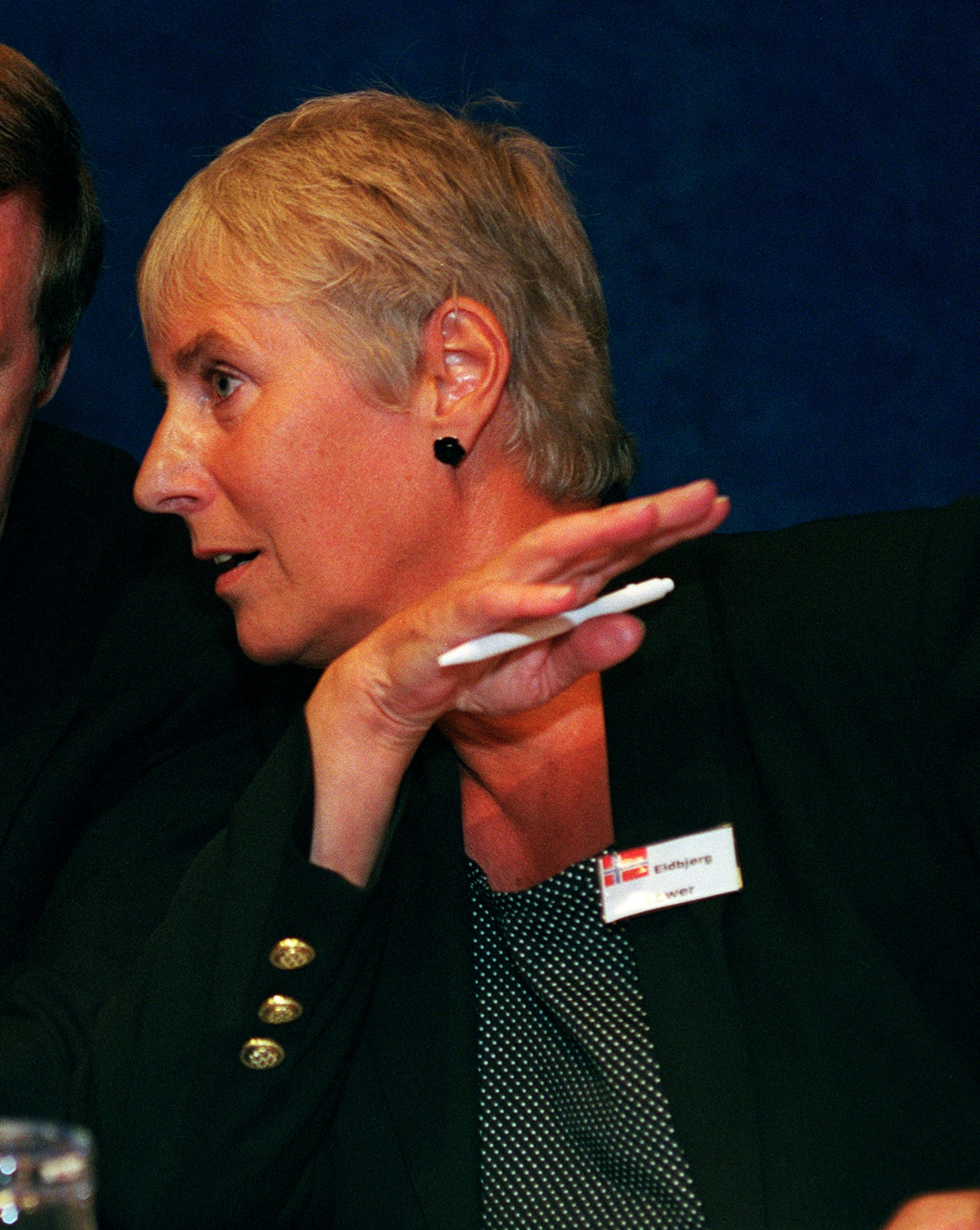 Eldbjørg Løwer, former Norwegian secretary of defense